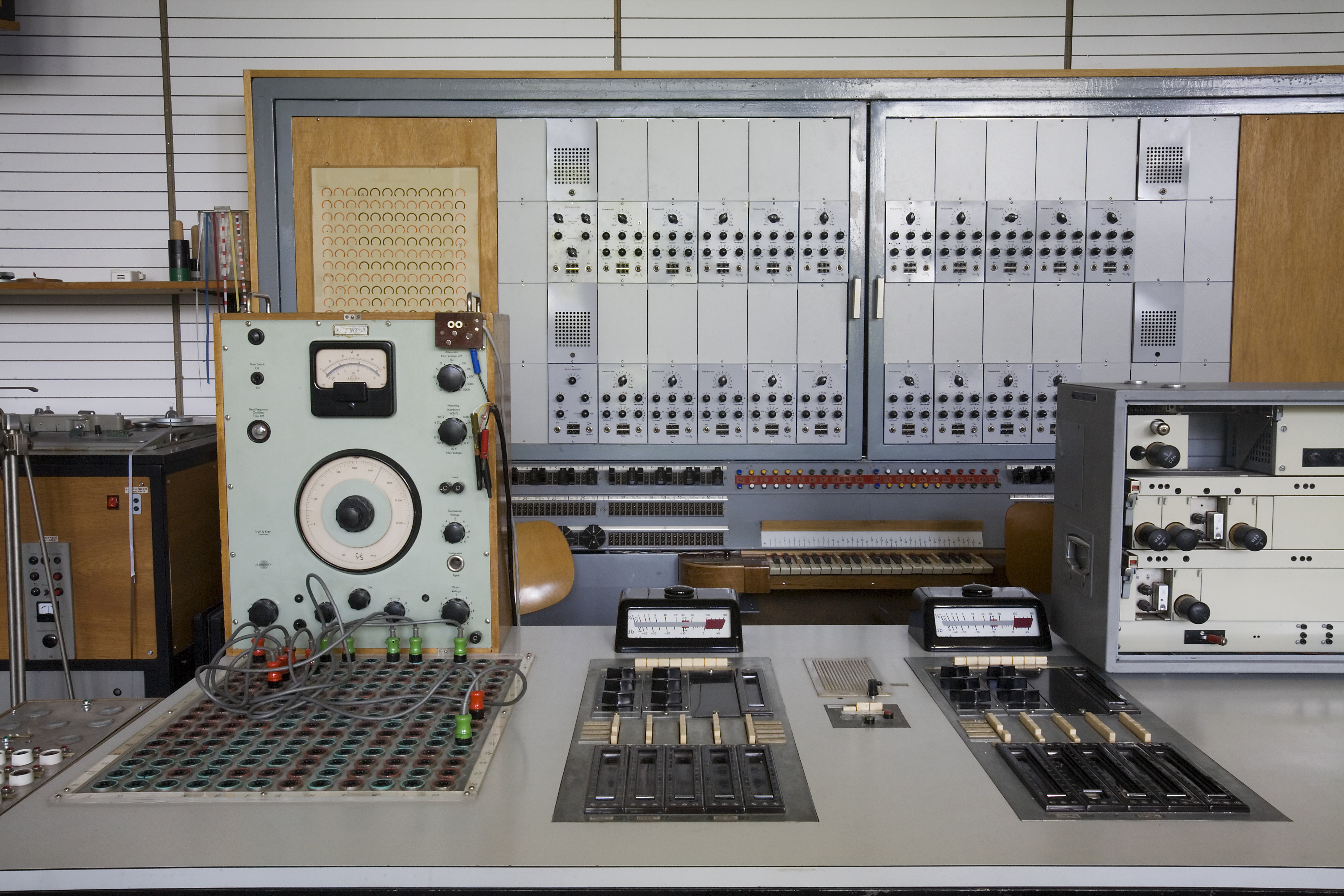 Details of a Siemens electronic music recording studio 1955